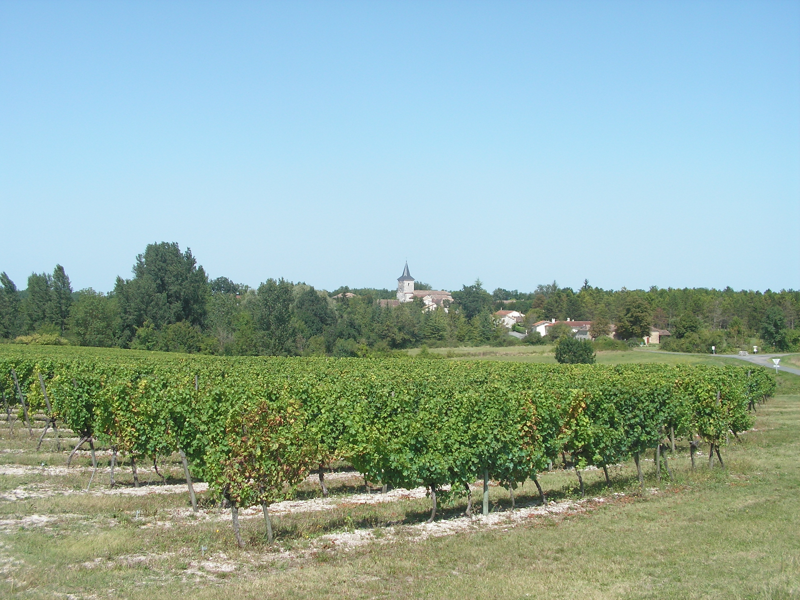 Le bourg d'Eyrenville, Plaisance, Dordogne, France.